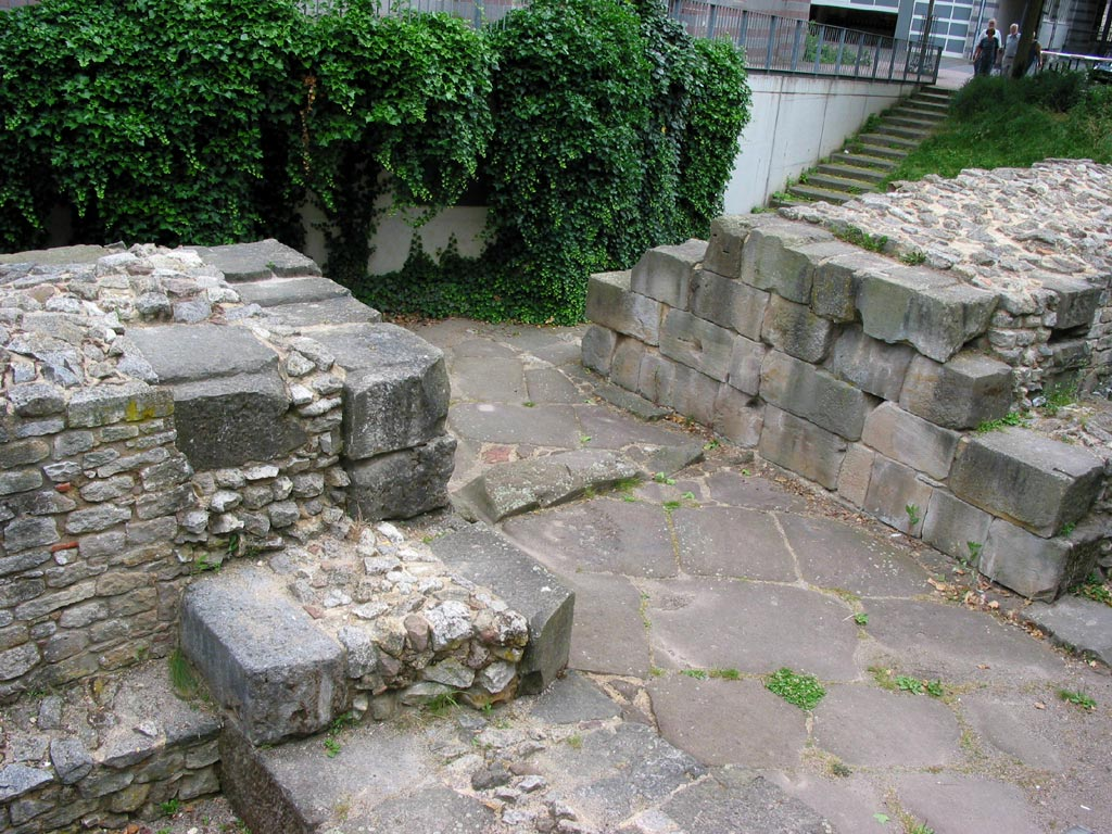 Remains from a roman town gate from the late 4th century. Located on the "Kästrich", Mainz